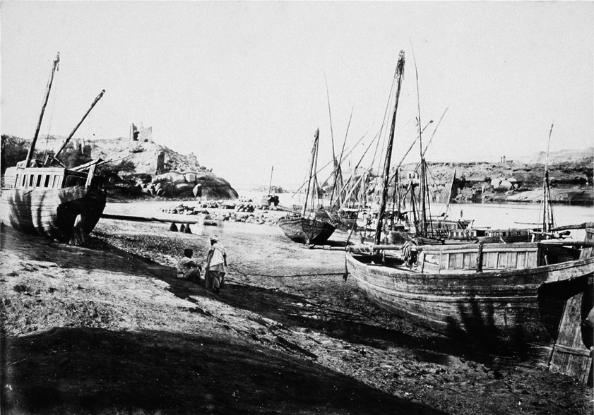 recto-(in picture) "Frith" lower right corner (printed) "Assouan" (printed) "Frith Photo"